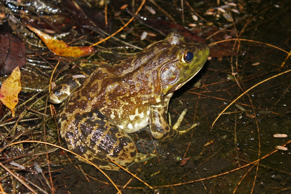 Sadly, aside from a Cuban tree frog, this invasive species was the first amphibian we found, Playa Larga, Matanzas Province.